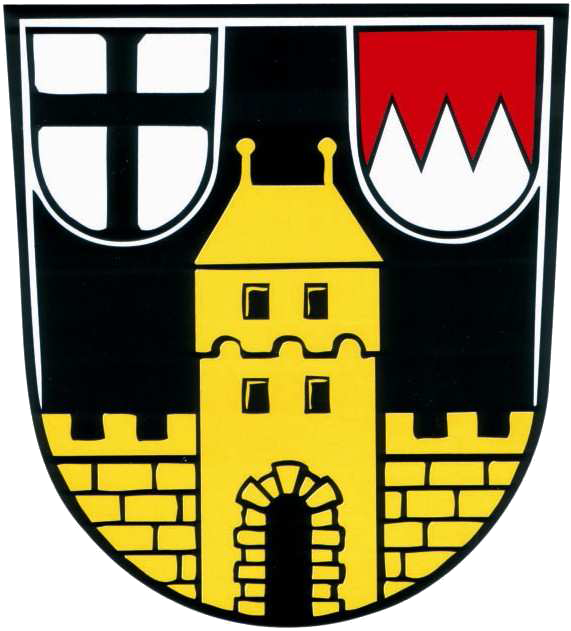 Coat of Arms of Neubrunn